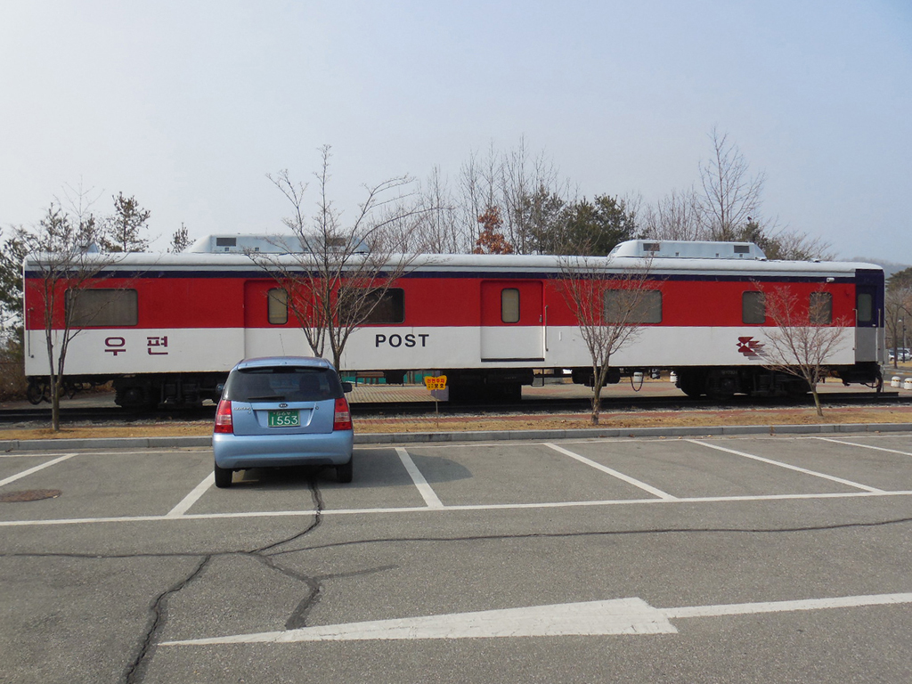 Korail Postal Car 17934